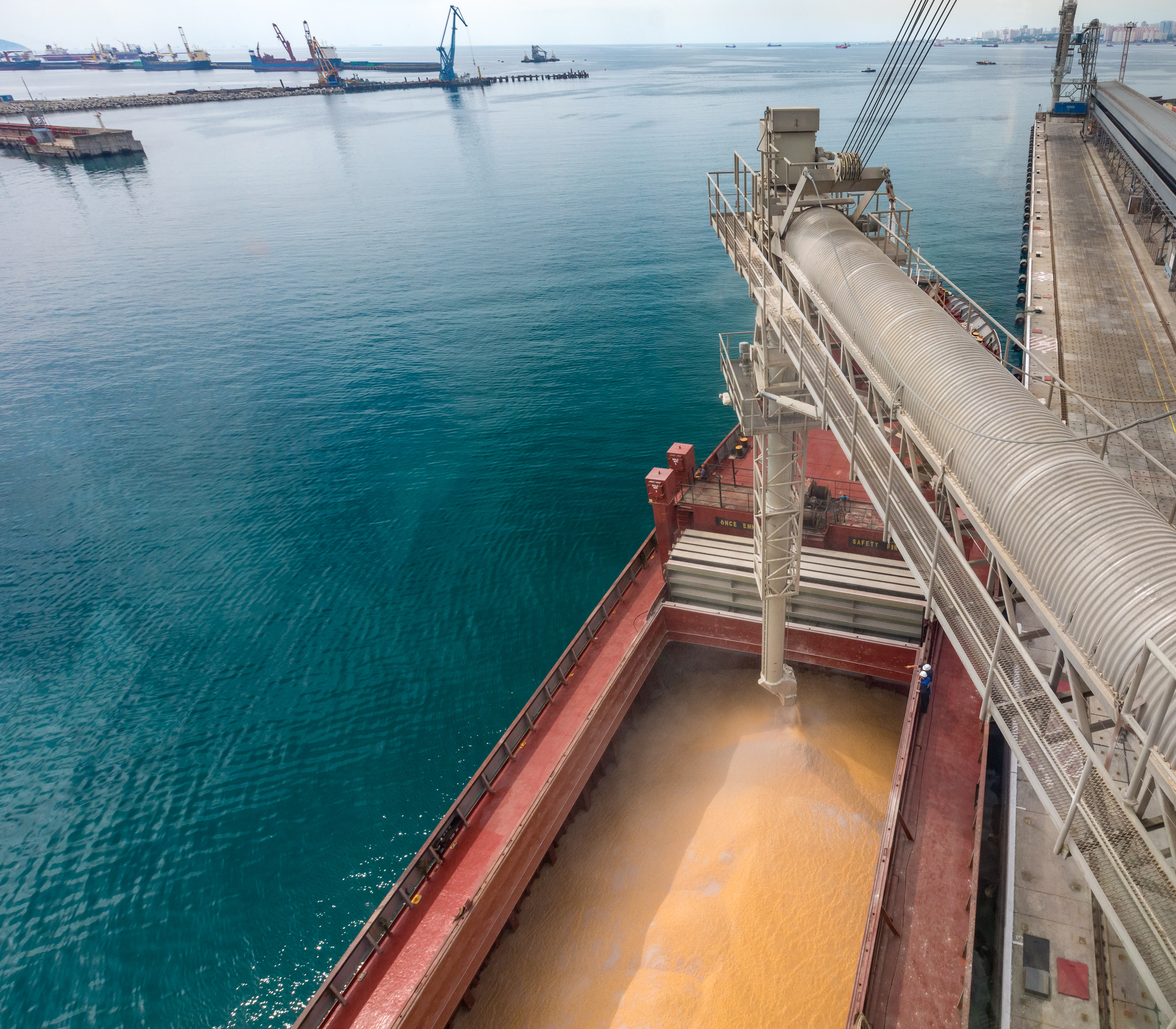 grain shipments at KSK terminal, Port of Novorossiysk